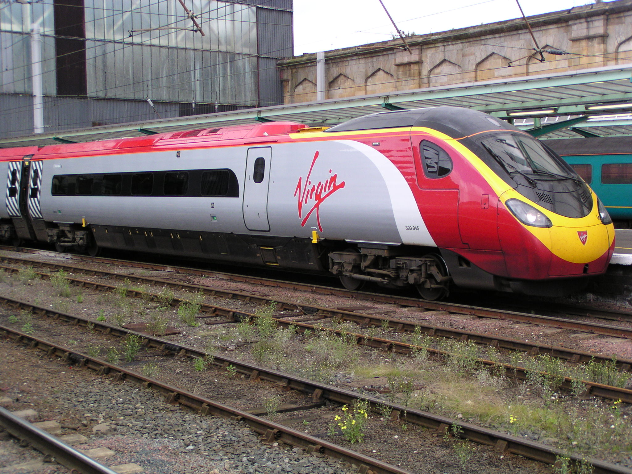 This image was copied from . The original description was: British Rail Class 390, no. 390045 "Virgin Valiant" at Carlisle on 27th August 2004, whilst forming a Glasgow Central to London Euston express. This unit is painted in the latest Virgin Trains silver and red livery.